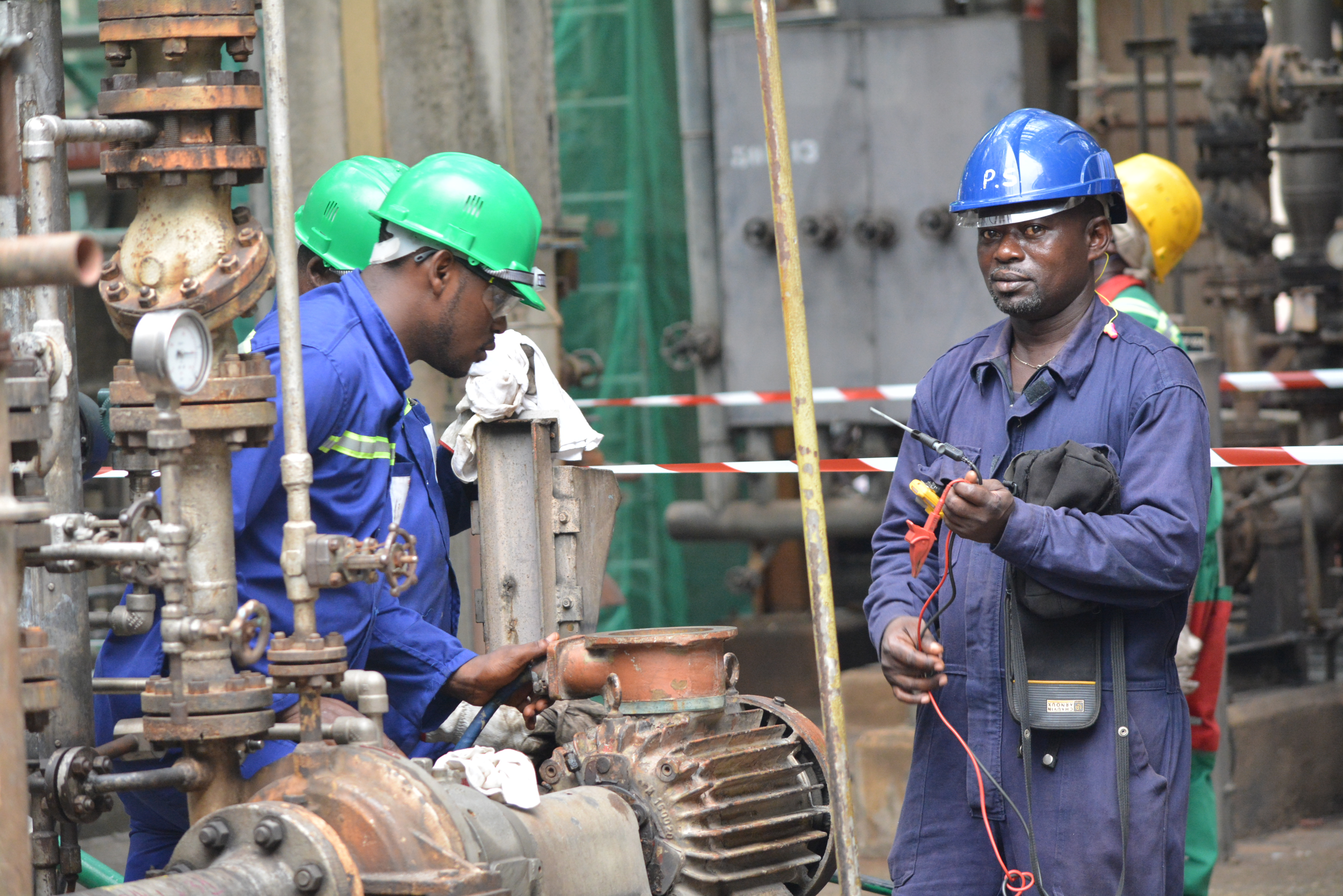 During Turnaround in a refinery, worker at work This is an image of "African people at work" from Cameroon